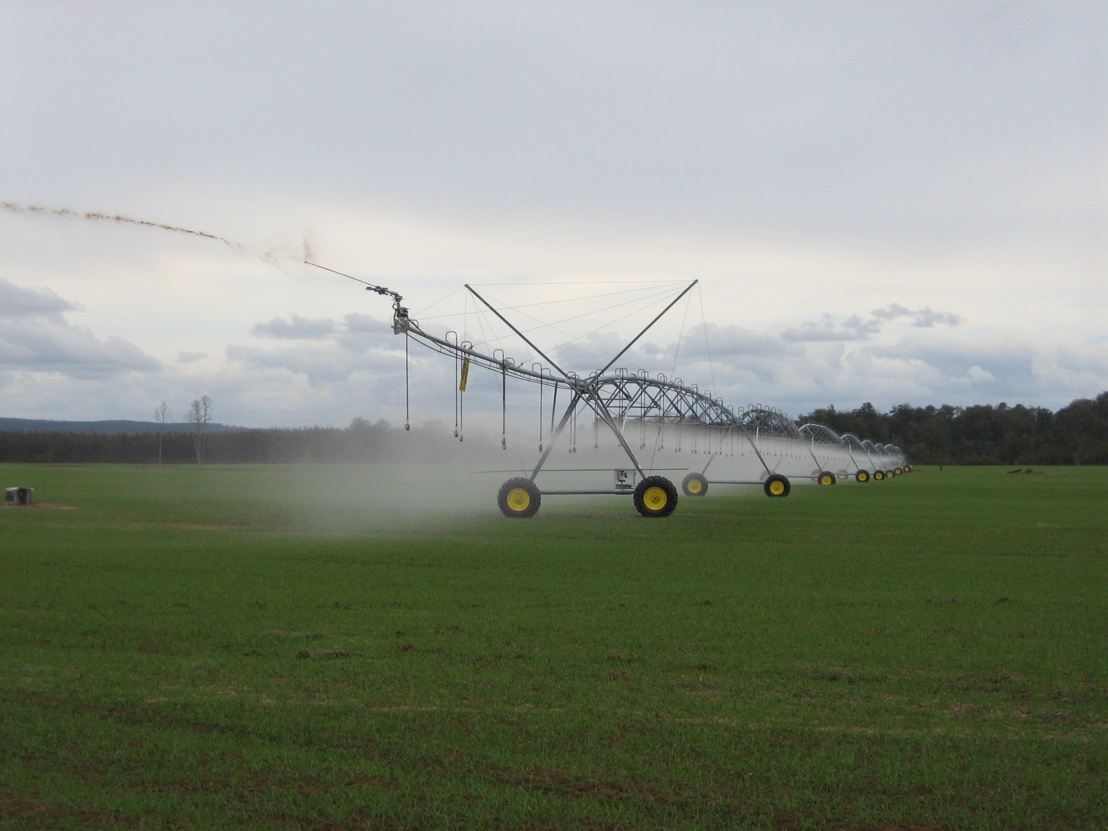 pivot irrigation